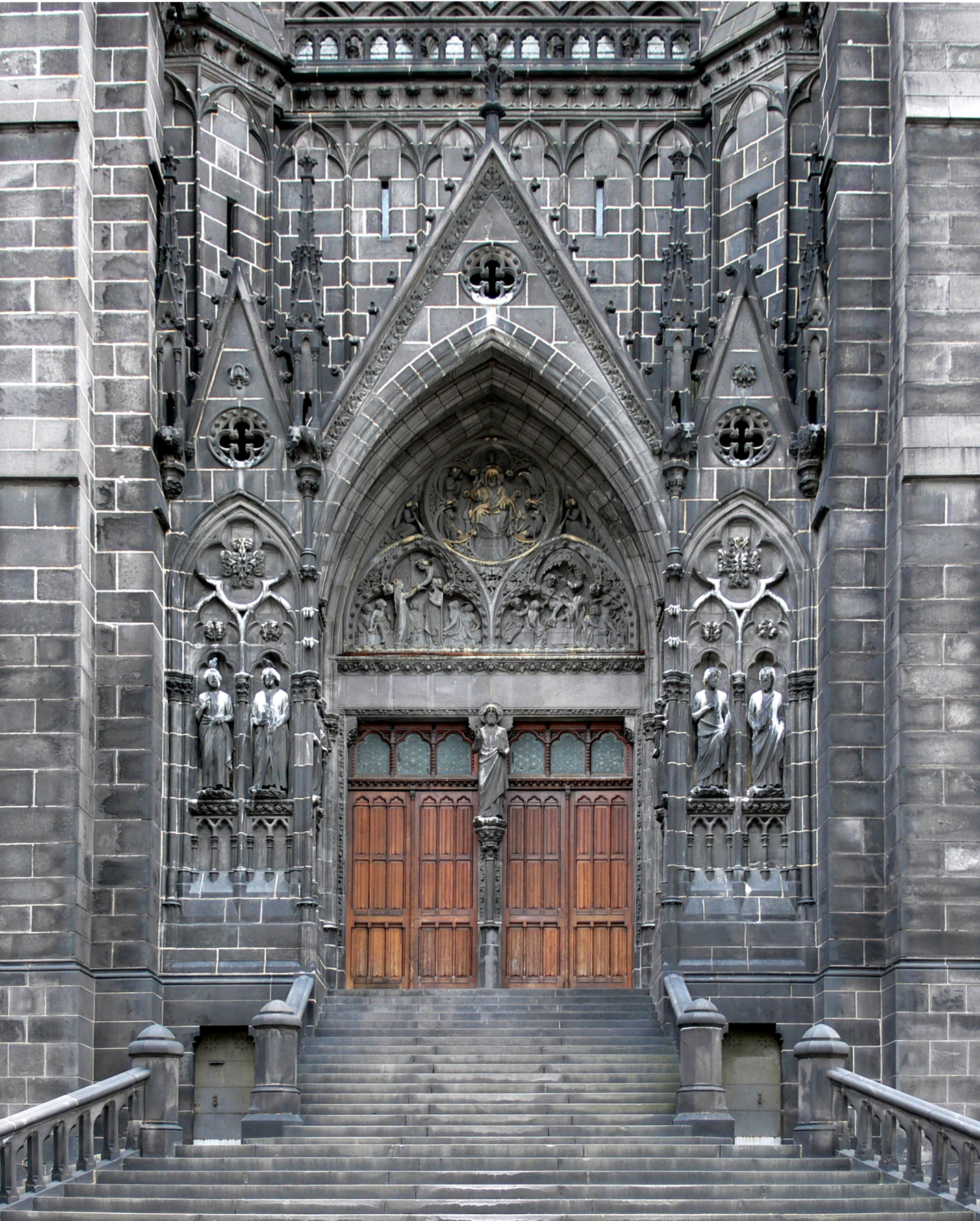 Main entrance of the Cathedral, builded in volcanic stone, of Clermont Ferrand, Auvergne, France